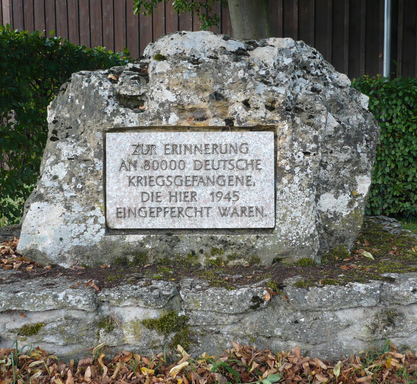 Prisoner of war memorial in Welda, Germany.